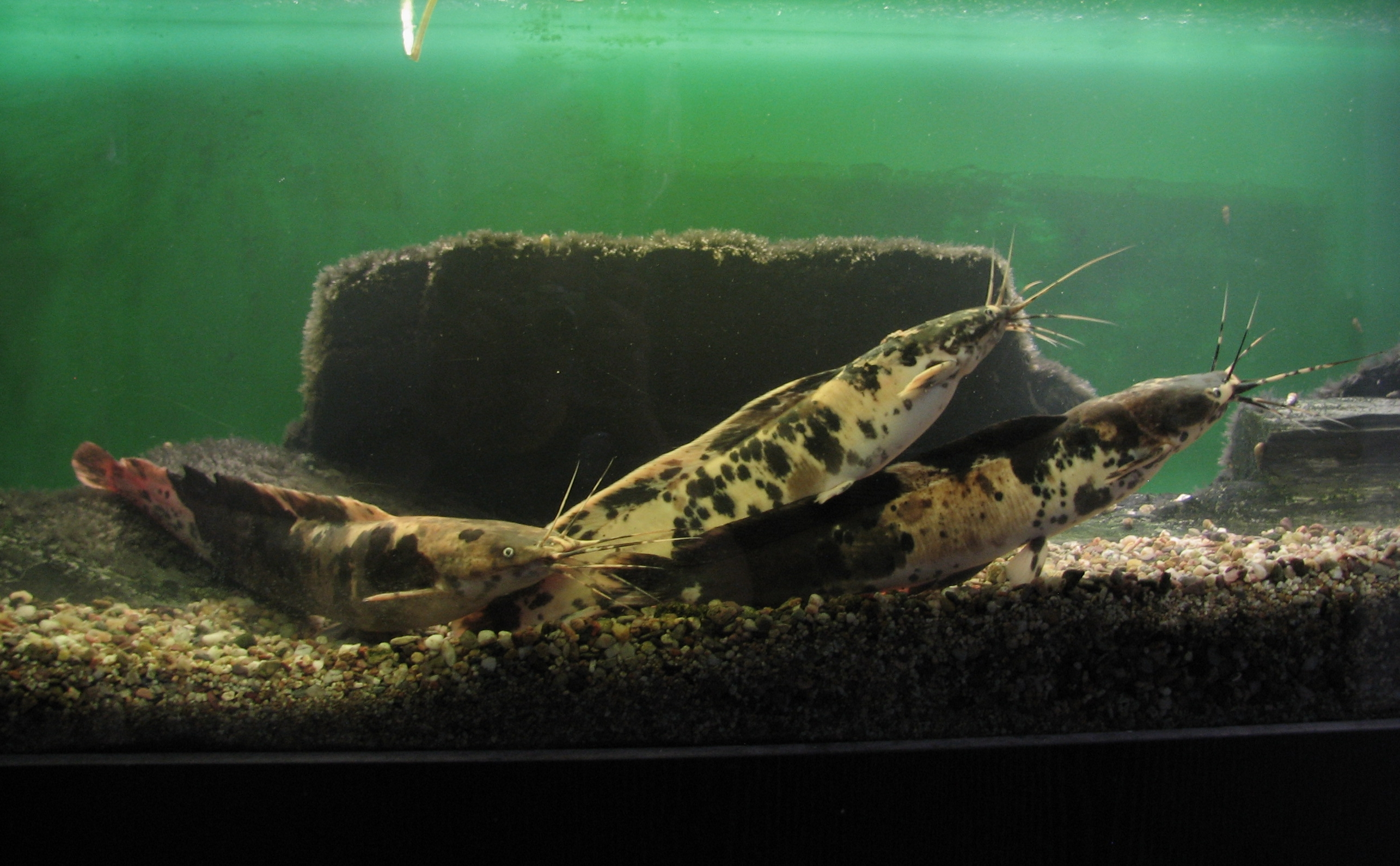 Clarias batrachus in aquarium of ZOO Brno, Czech Republic